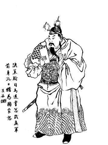 Qing dynasty portrait of Cao Zhen